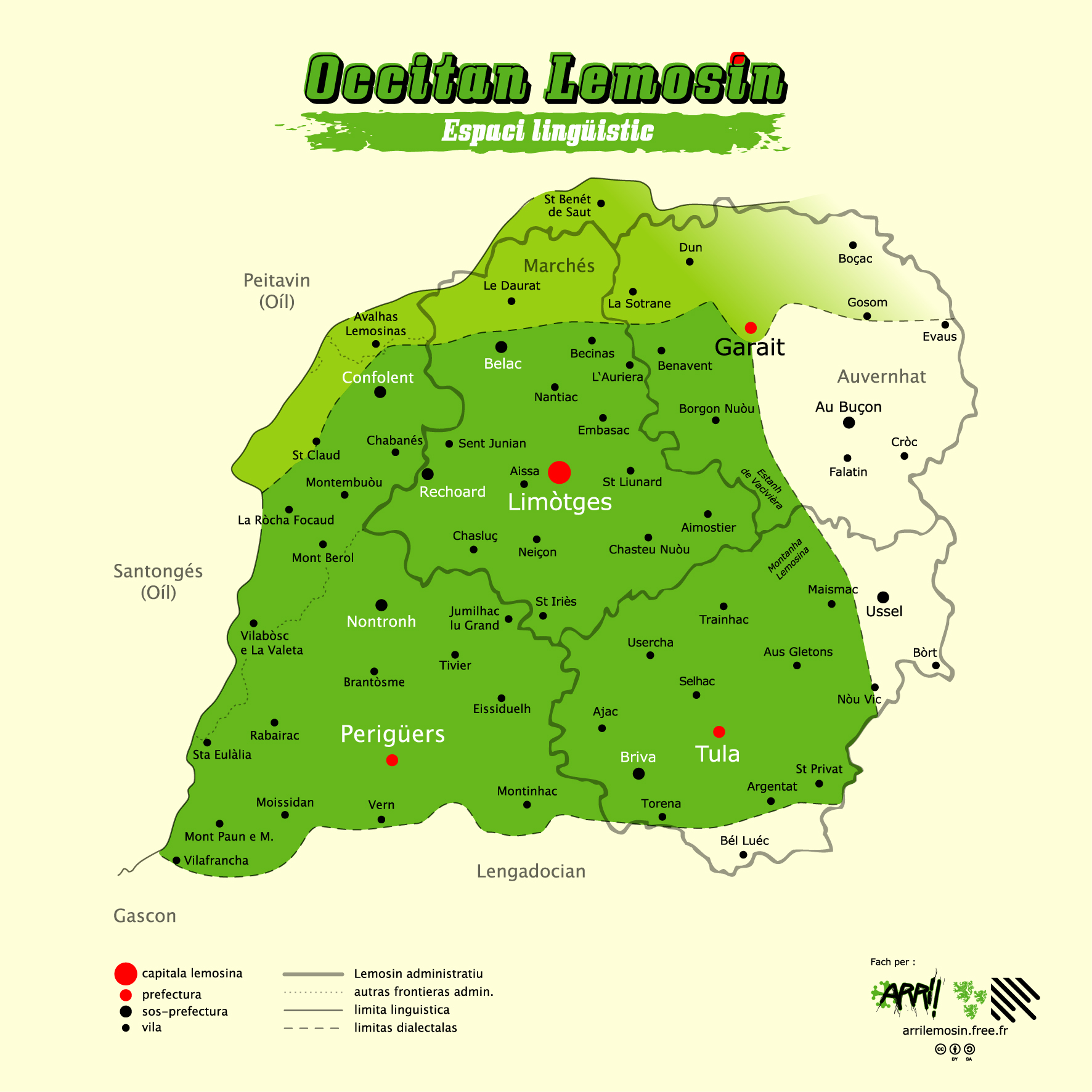 Limousin occitan map. Cultural Limousin.